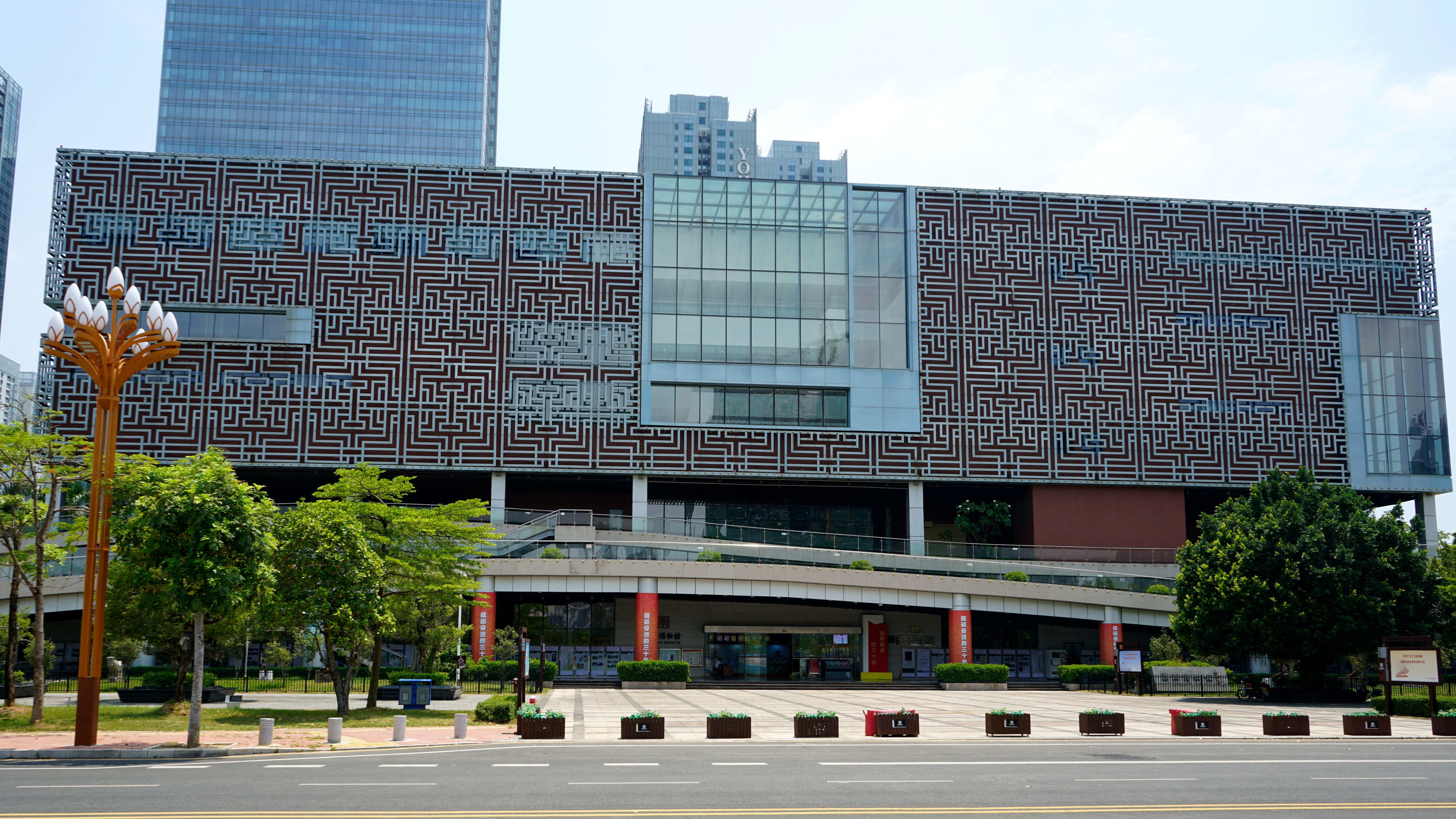 Huizhou Museum building